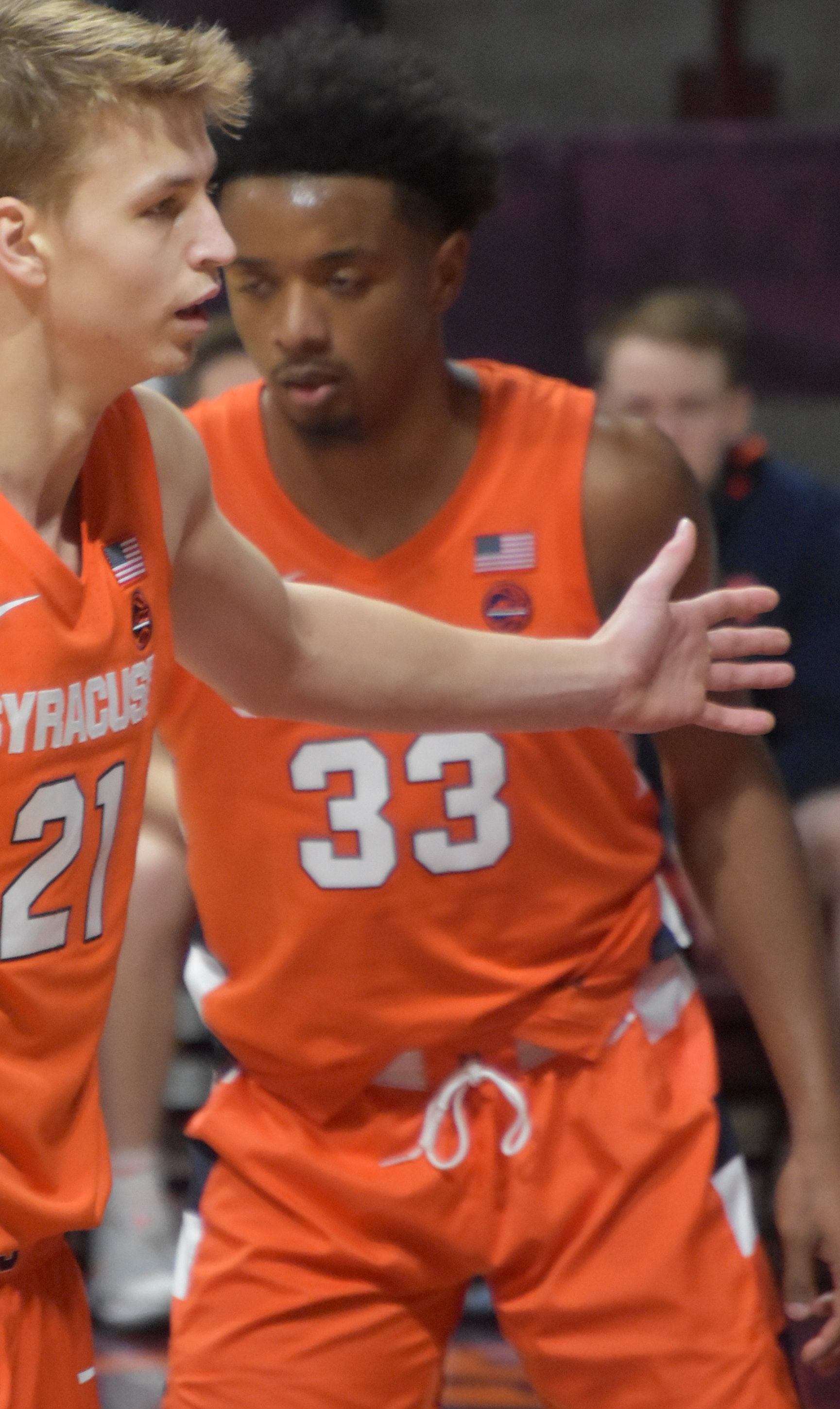 Marek Dolezaj and Elijah Hughes working the defense for the Orange at Cassell Coliseum